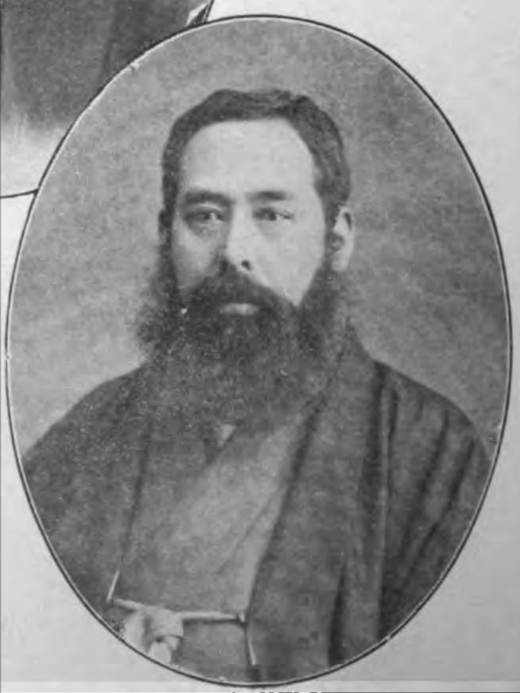 Iwasaki Manjiro (1852-1911) was known a Japan Japanese revolutionary democrat active in the Freedom and People's Rights Movement.